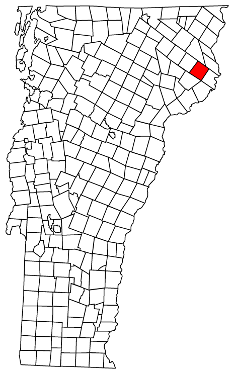 Description: Map of Vermont towns with Granby highlighted Source: Map created by Jared C. Benedict on 26 March 2004. Copyright: © Jared C. Benedict.